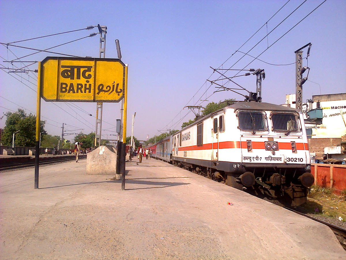 platform board of board of barh, barh, Bihar, India